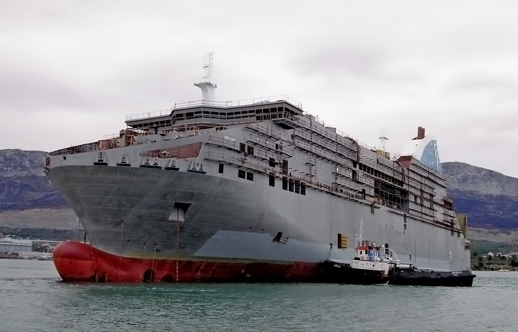 Brodosplit - ro-pax